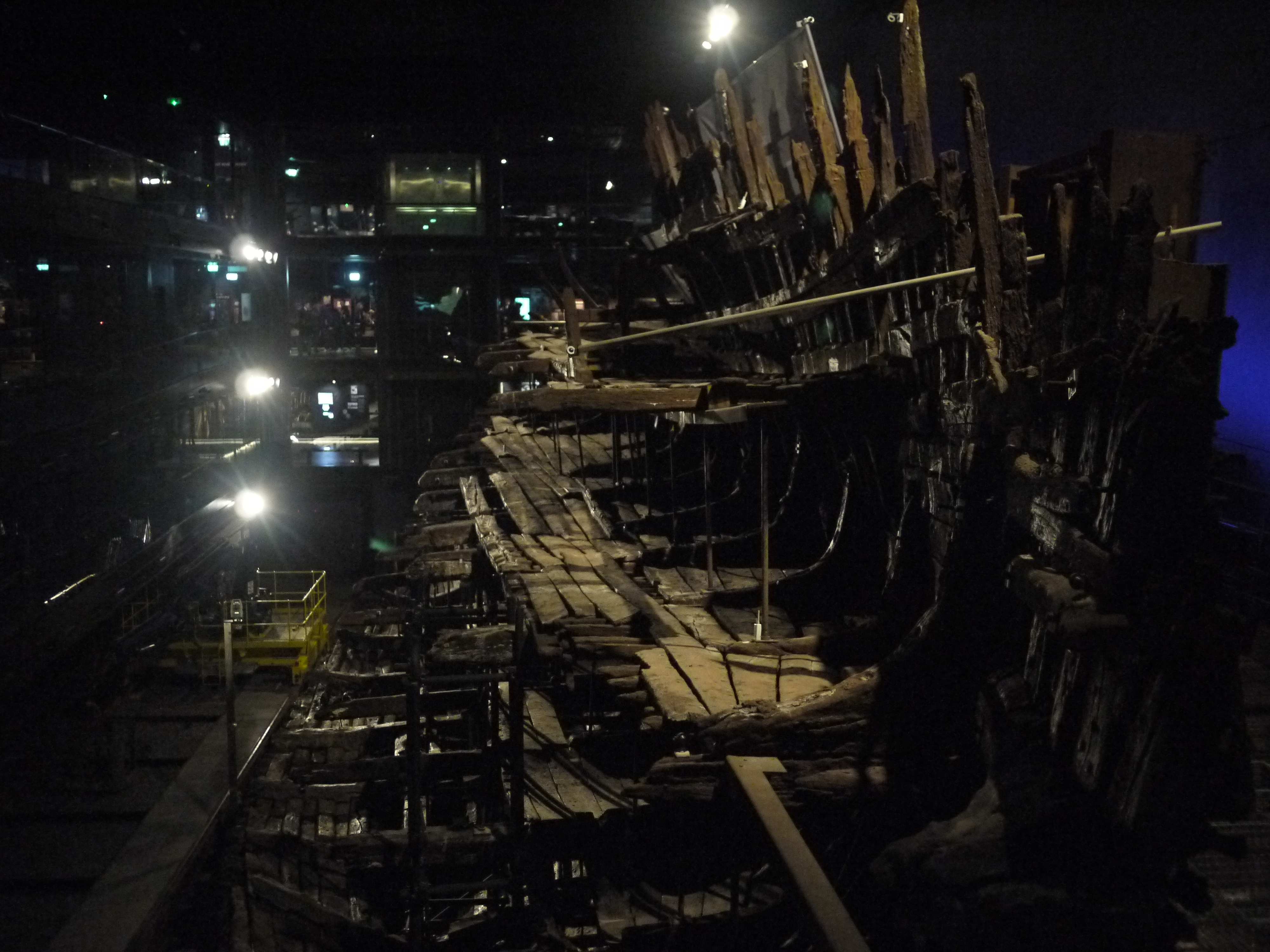 Mary Rose under conservation